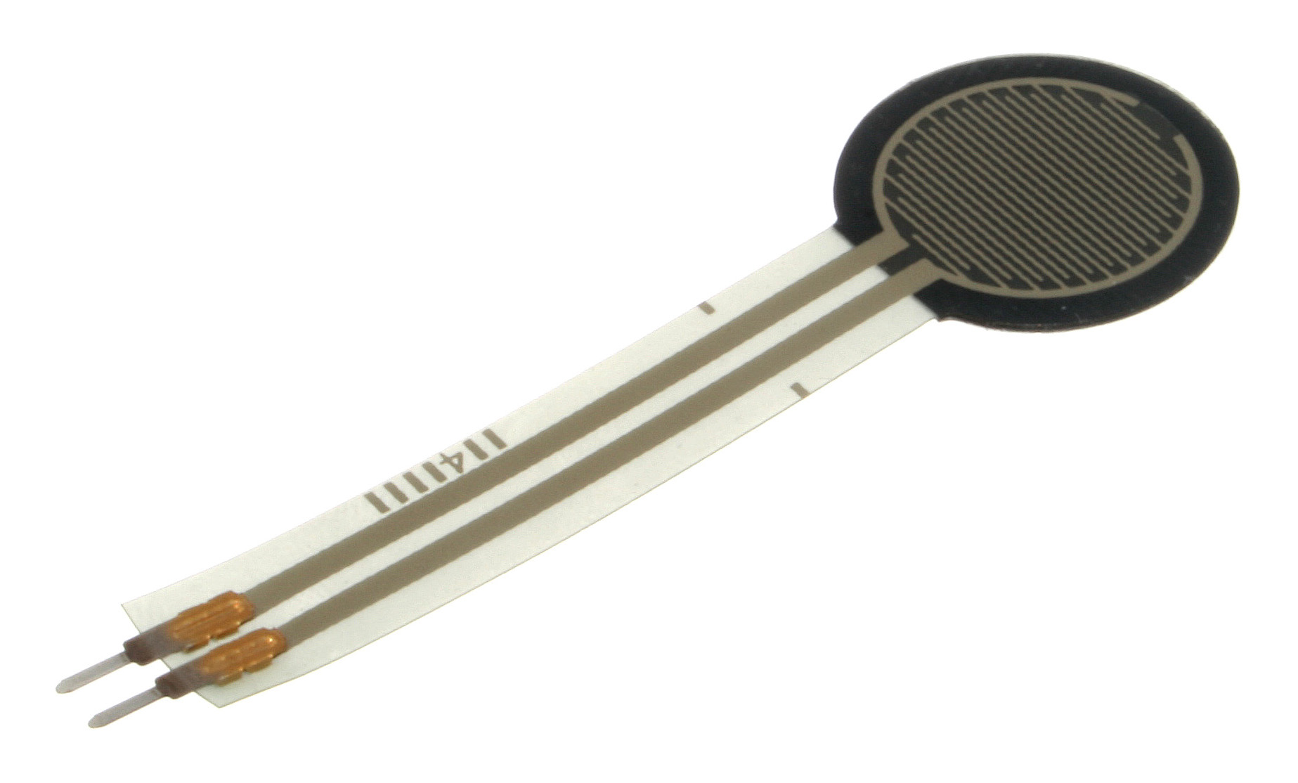 Interlink Electronics FSR 402 Force-Sensing Resistor.